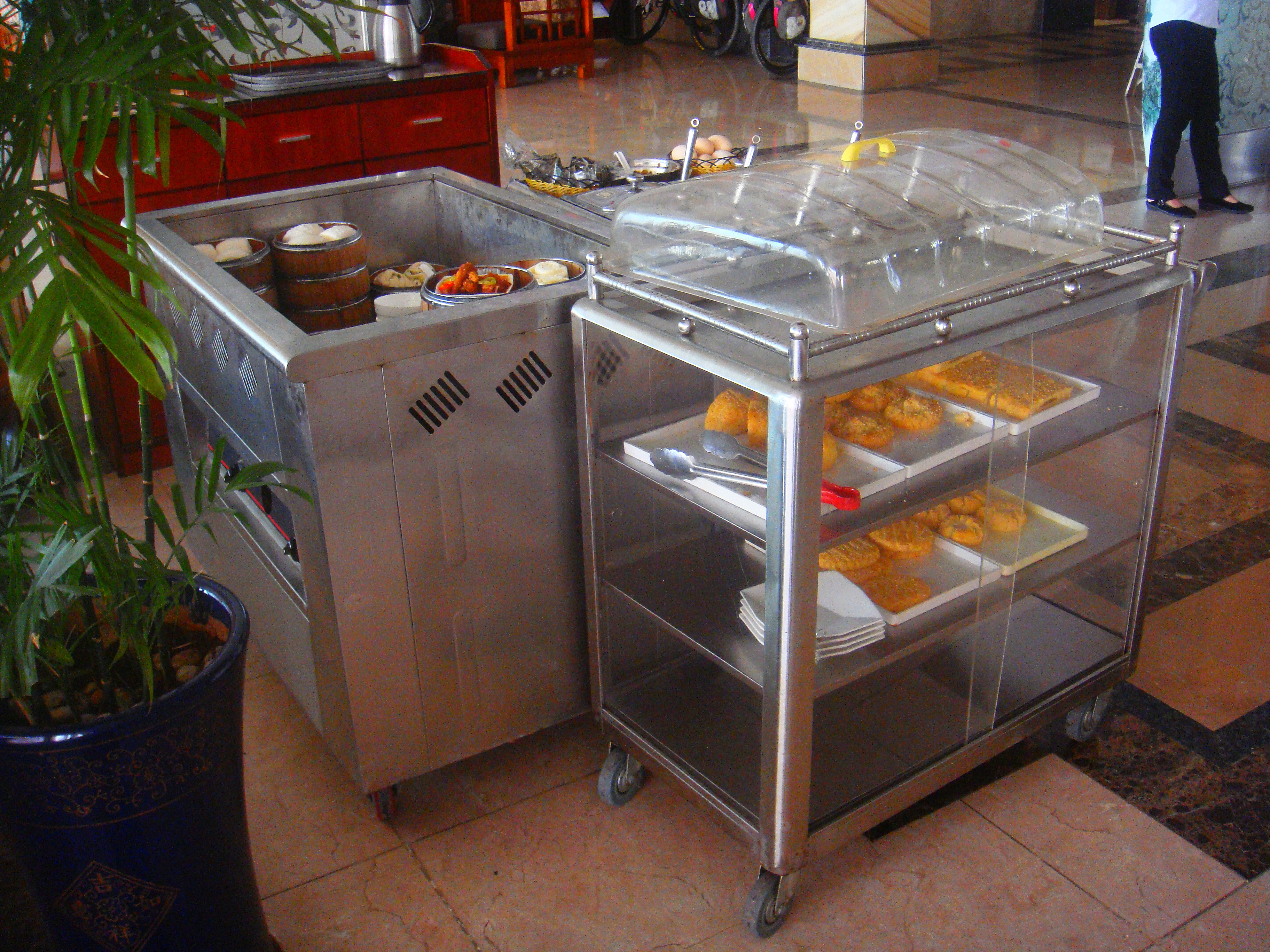 Serving carts in a hotel restaurant in Ding An, Hainan, China